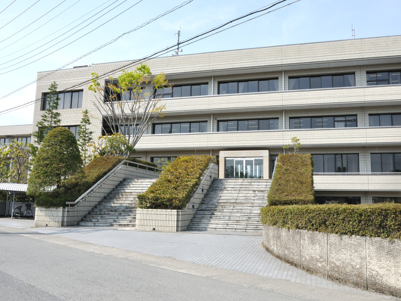 Hinode Town Office Building